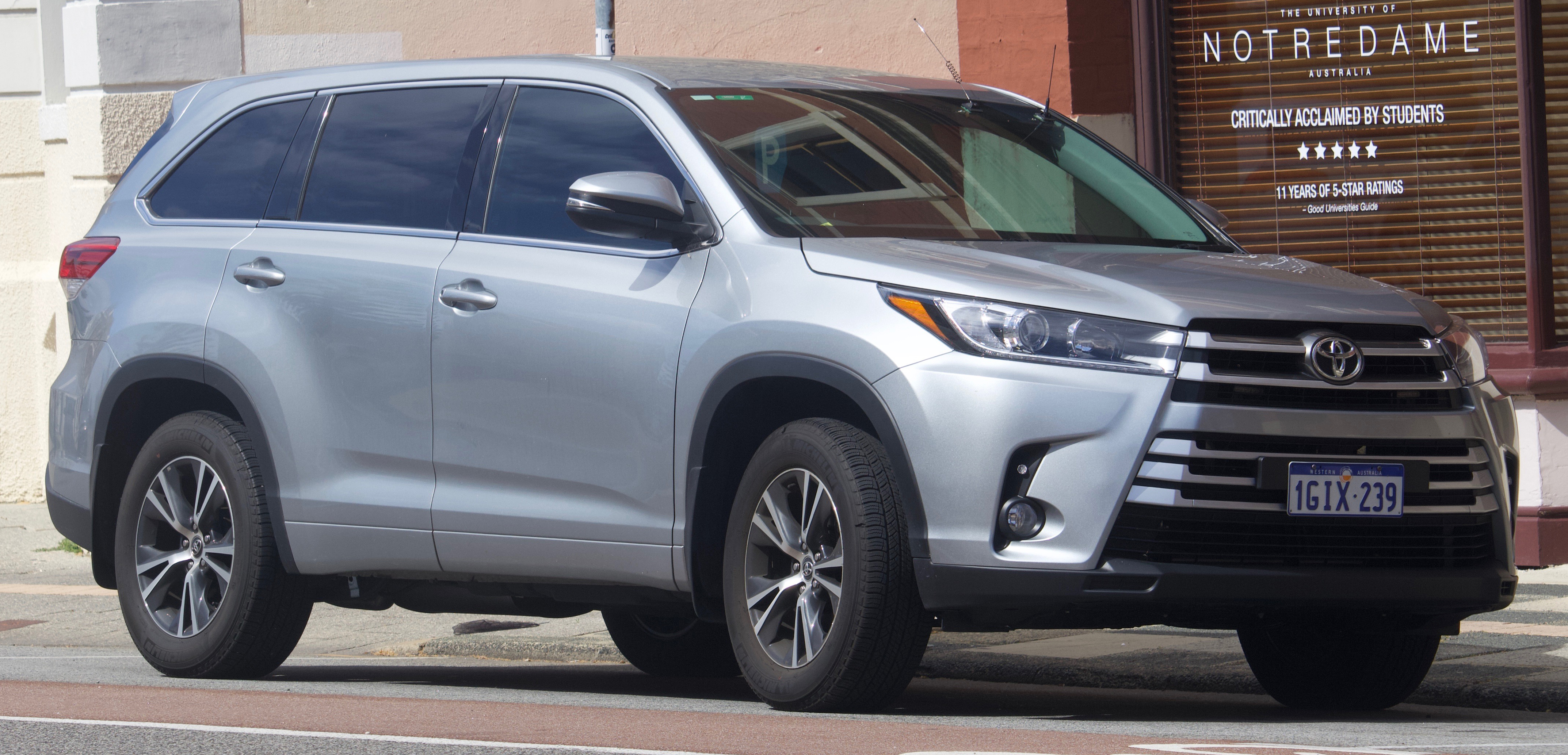 2017 Toyota Kluger (GSU55R) GX wagon. Photographed in Fremantle, Western Australia, Australia.